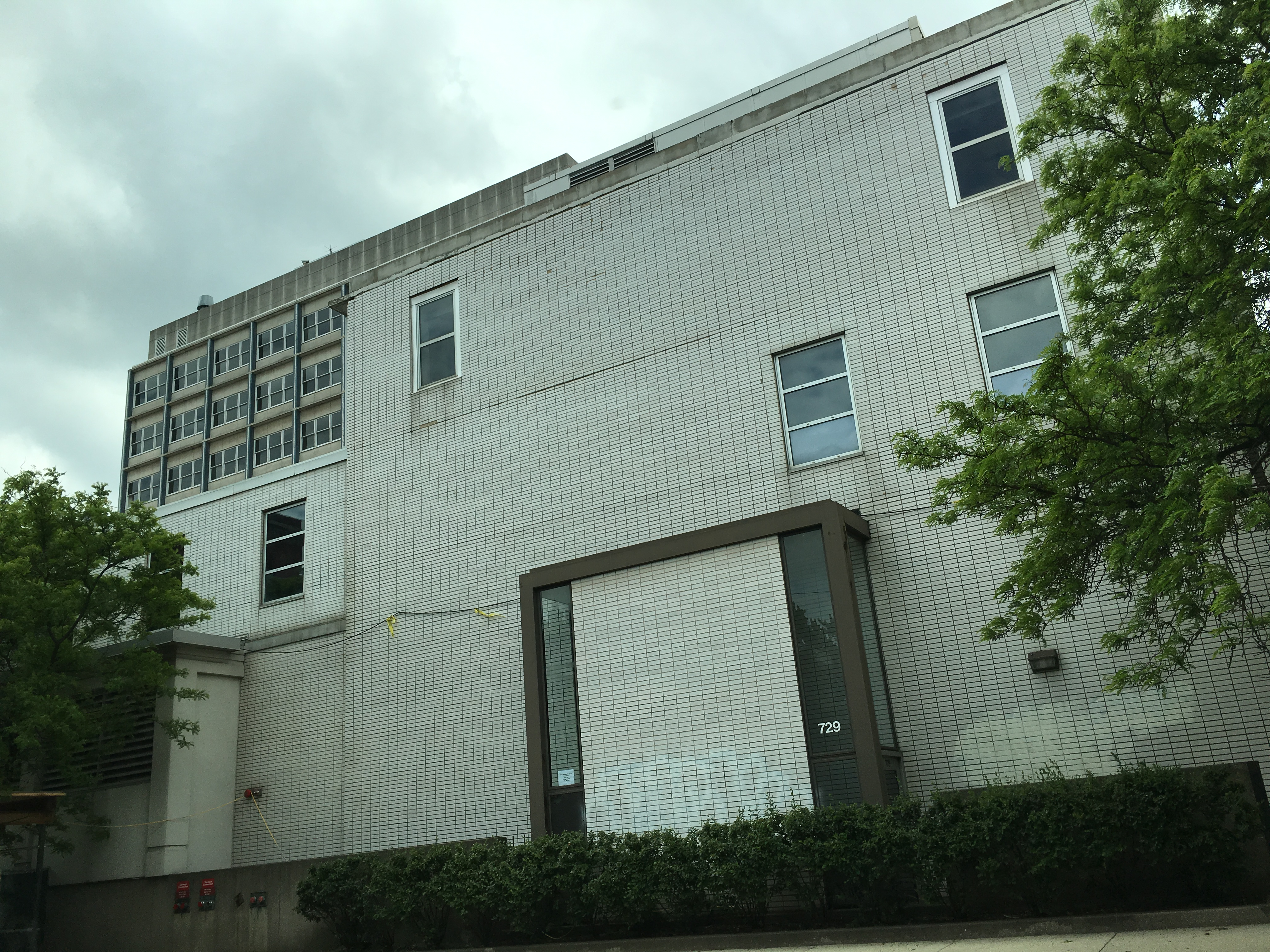 children's memorial hospital Lincoln park